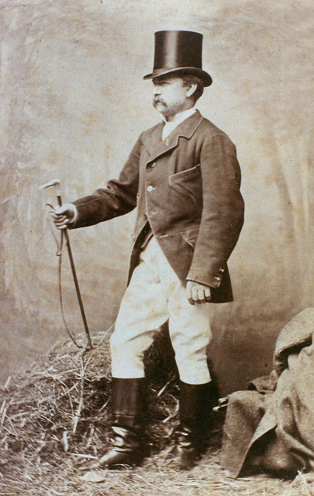 Ebeczki Blaskovich Ernő (1834. január 14. – Budapest, 1911. május 18.) mezőgazdász, lótenyésztő, a tápiószentmártoni ménes alapítója. Az 1876 és 1879 között minden versenyét megnyerő Kincsem nevű verhetetlen csodaló tulajdonosa.